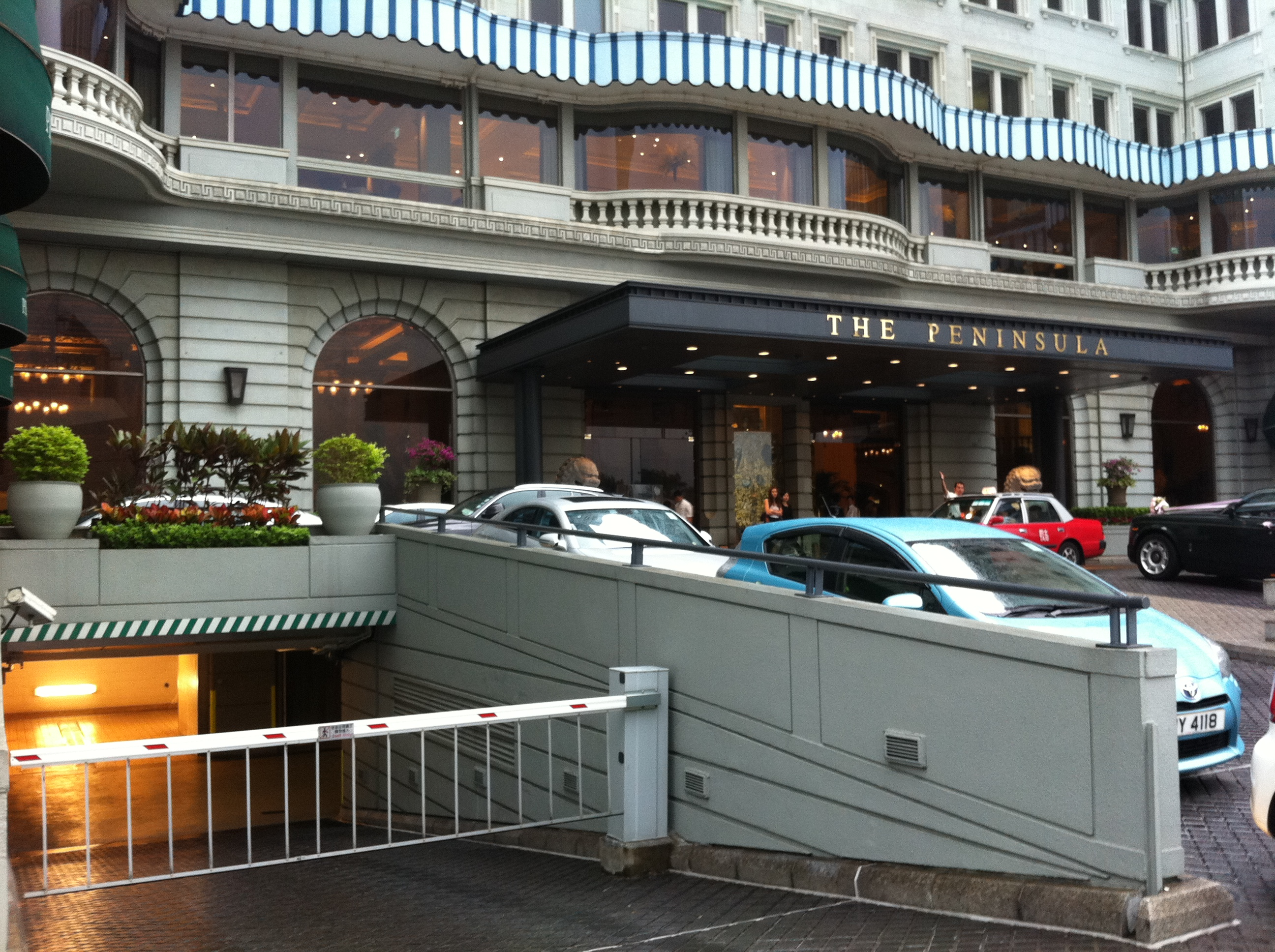 半島酒店, The Peninsula Hong Kong Hotel, Tsim Sha Tsui, Hong Kong